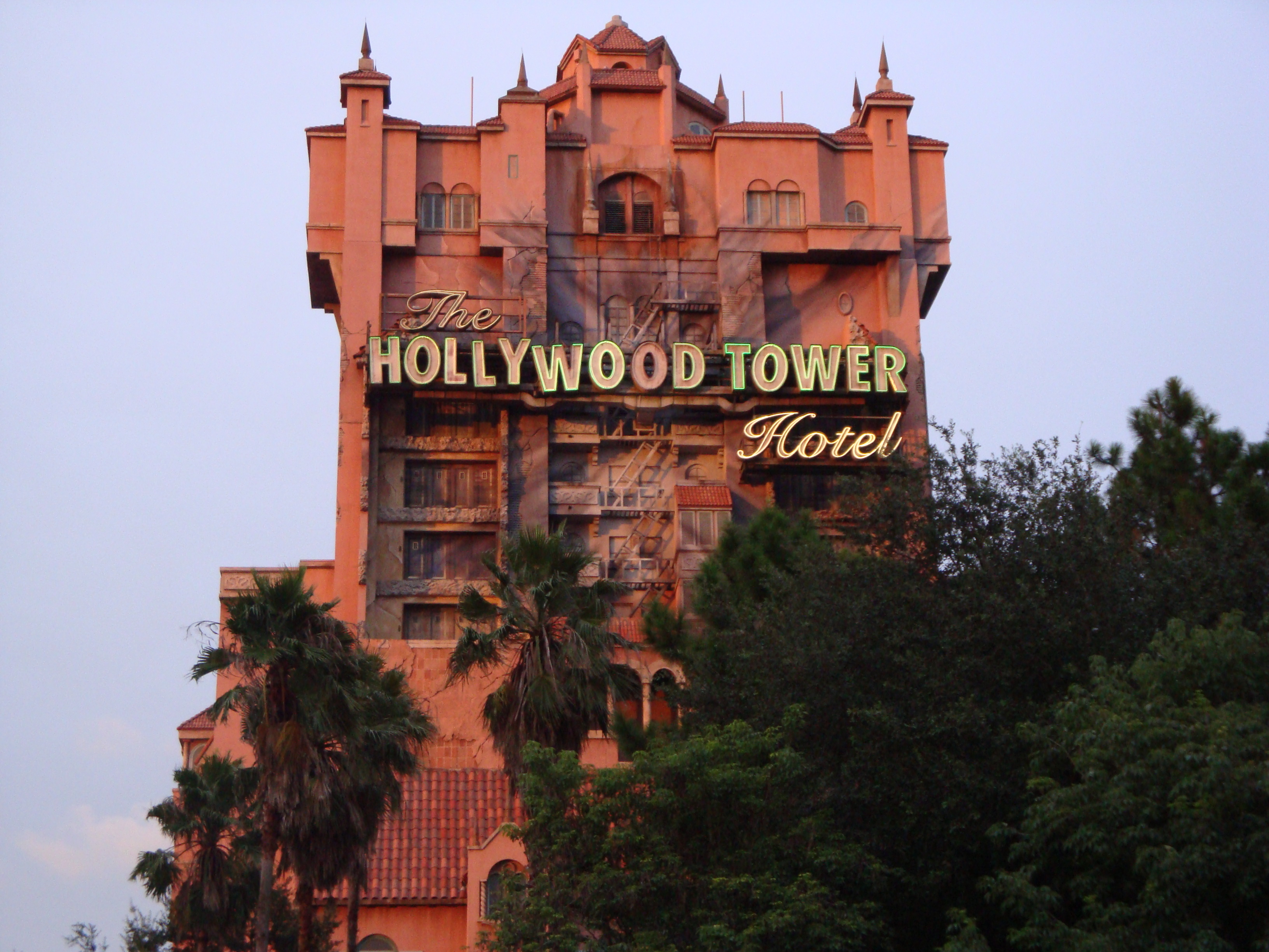 Tower of Terror (Florida)